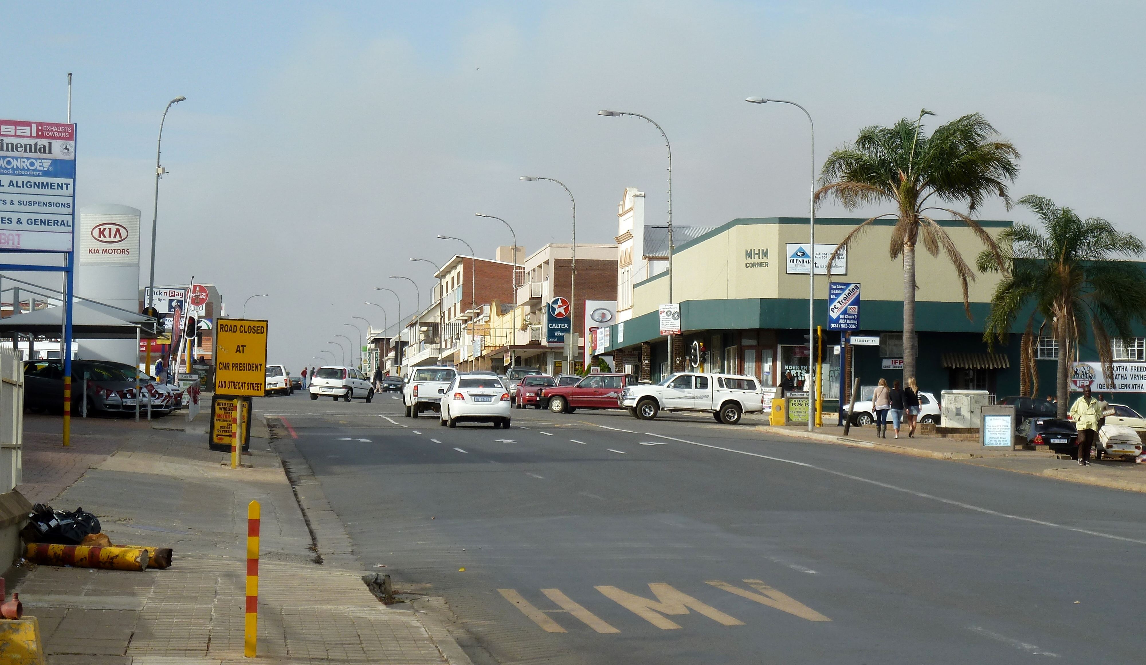 Kerk Street, the main street of Vryheid, northern KwaZulu-Natal